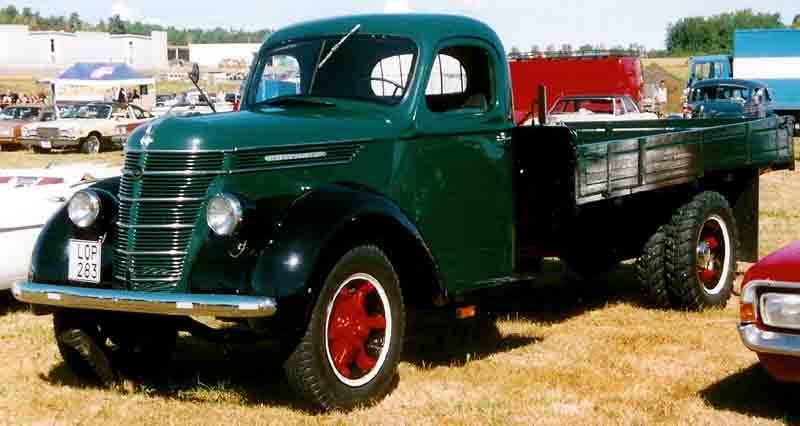 International D-35 Truck 1938